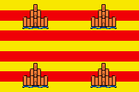 Flag of Ibiza and Formentera, in the Balearic Islands (Spain)